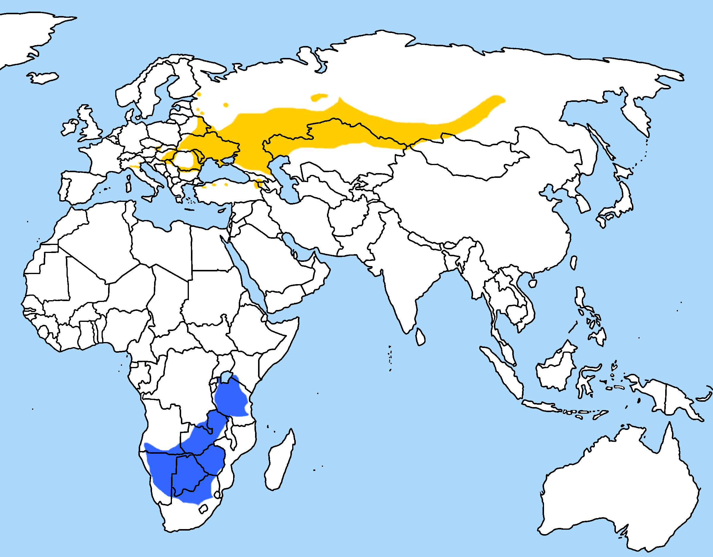 Made by Ulrich Prokop (Scops) Sources: Mebs&Schmidt: Die Greifvögel. Kosmos Stuttgart 2006. S. 383 Ferguson-Lees&Christie: Raptors of the World. Houghton Mifflin Comp. New York 2001. p. 864